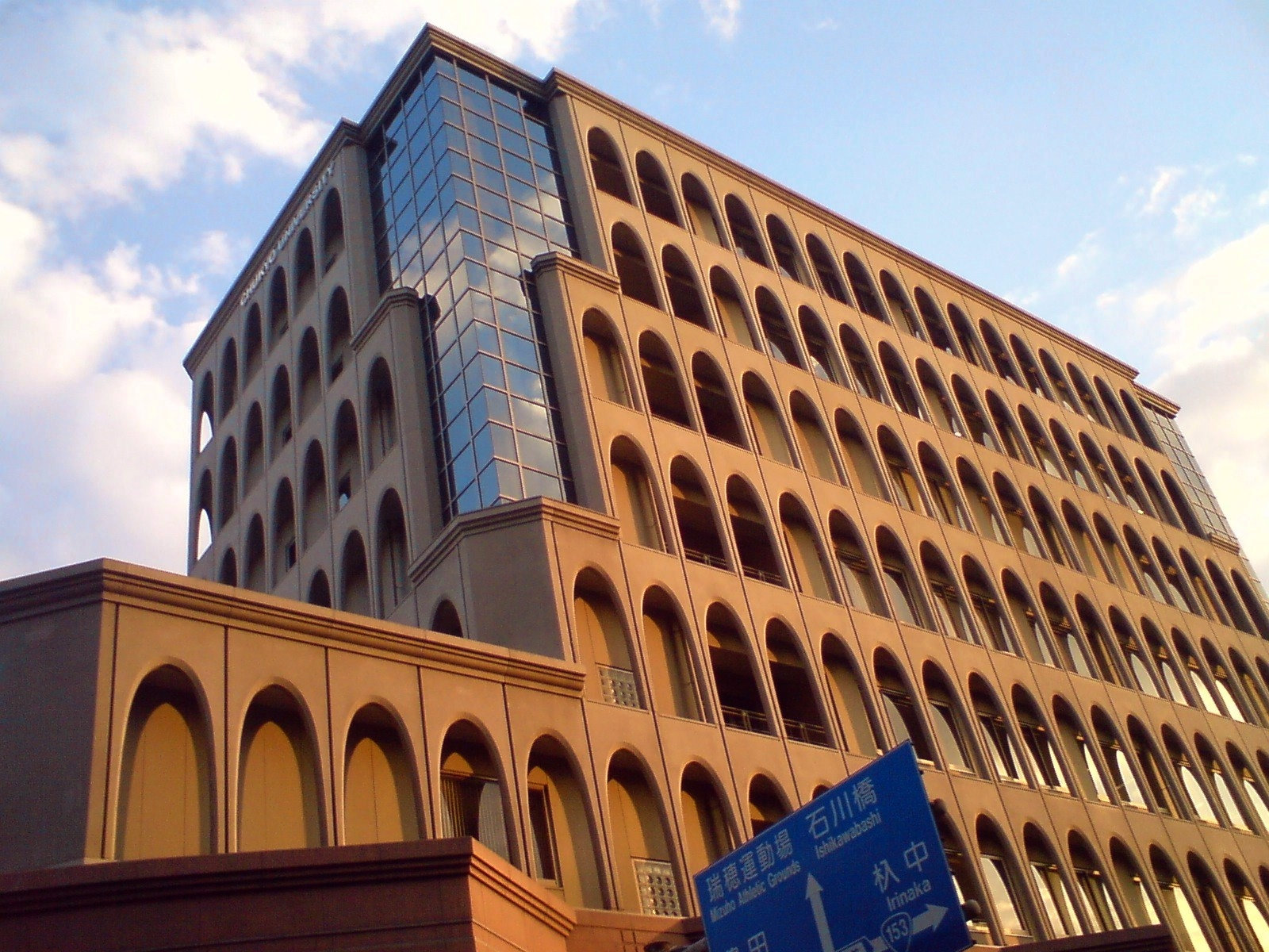 Chukyo University in Yagoto, Nagoya. See where this picture was taken. [?]